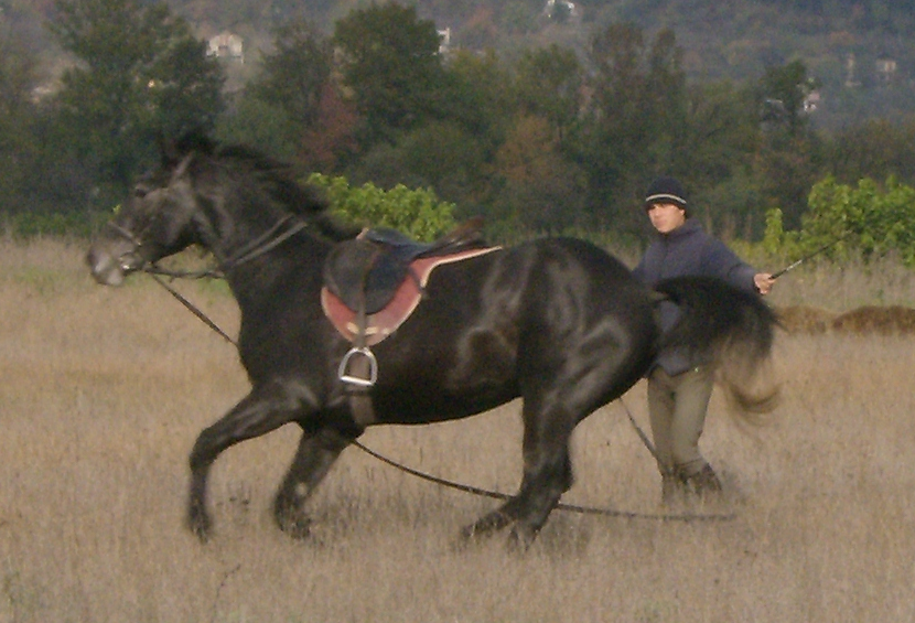 East bulgarian horse training